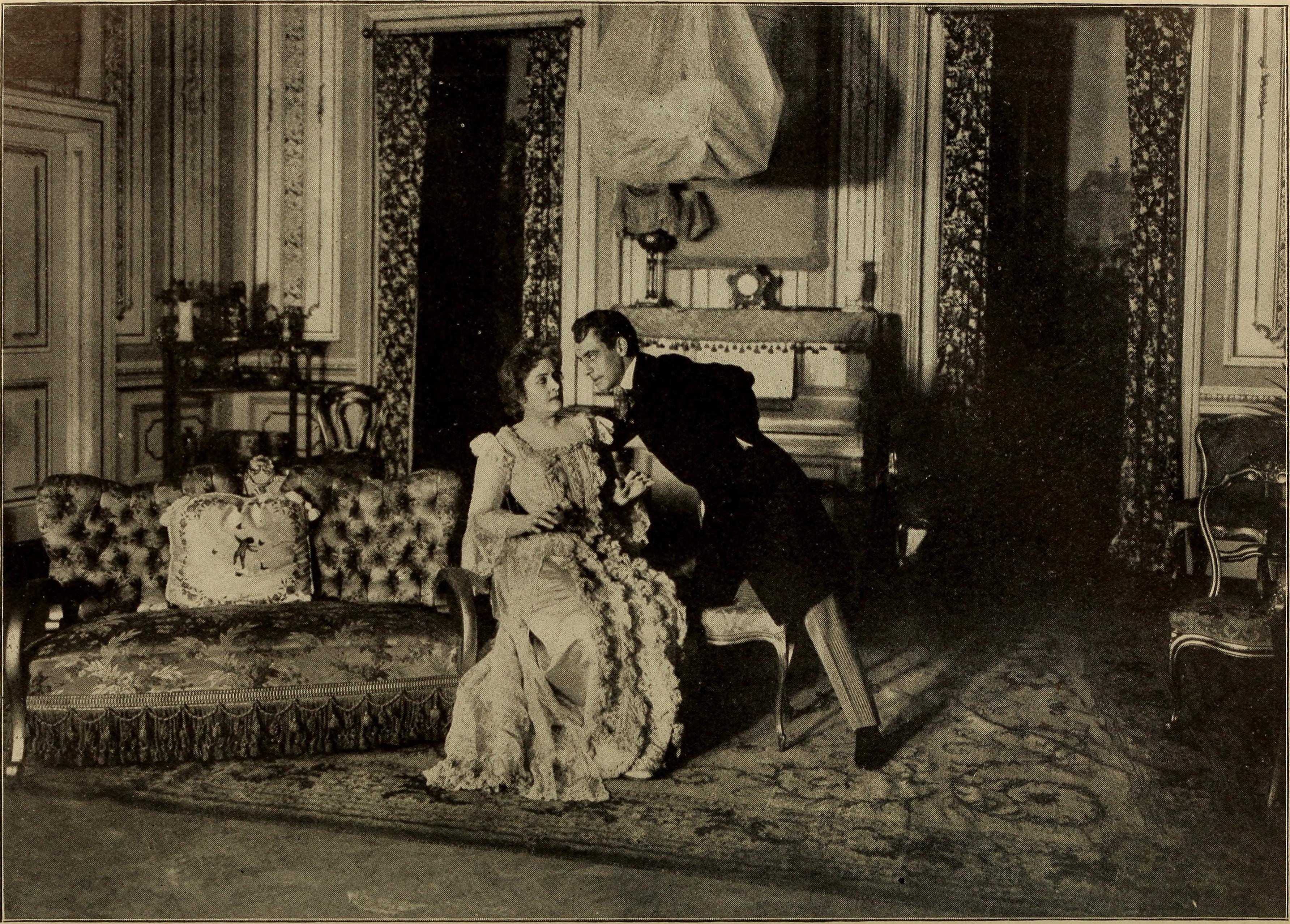 Title: Home and school reciter; readings, declamations and plays, original compositions and choice selections of the best literature .. Year: 1902 (1900s) Authors: Linthicum, Richard. (from old catalog) Subjects: Publisher: Chicago, Ill., J.S. Ziegler & co Text Appearing Before Image: ' Text Appearing After Image: DRAMATIC READINGS AND RECITATIONS. I blush to think upon it yet That I was such a fool;But young folks must learn wisdom, sir, In old misfortunes school.One fatal night, I thought the wind Gave some unwonted sighs,Down through the swamp I heard a tramp Which took me by surprise. Is this an earthquake drawing near? The forest moans and shivers;And then I thought that I could hear The rushing of great rivers;And while I looked and listened there, A herd of deer swept by,As from a close pursuing foe They madly seemed to fly. But still those sounds, in long, deep bounds, Like warning heralds came,And then I saw, with fear and awe, The heavens were all aflame.I knew the woods must be on fire, I trembled for my crop;As I stood there, in mute despair, It seemd the death of hope. On, on it came, a sea of flame, In long deep rolls of thunder,And drawing near, it seemd to tear The heavens and earth asunder!How those waves snored, and raged, androared, And reared in wild commotion!On, on they ca